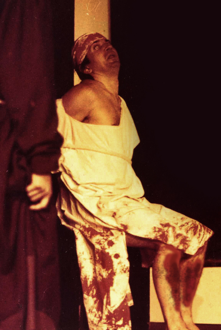 Grandier (David Keltz) tied to the stake, from "The Devils," written by John Whiting and directed by Brad Mays at the Corner Theatre ETC, Baltimore, in 1976.